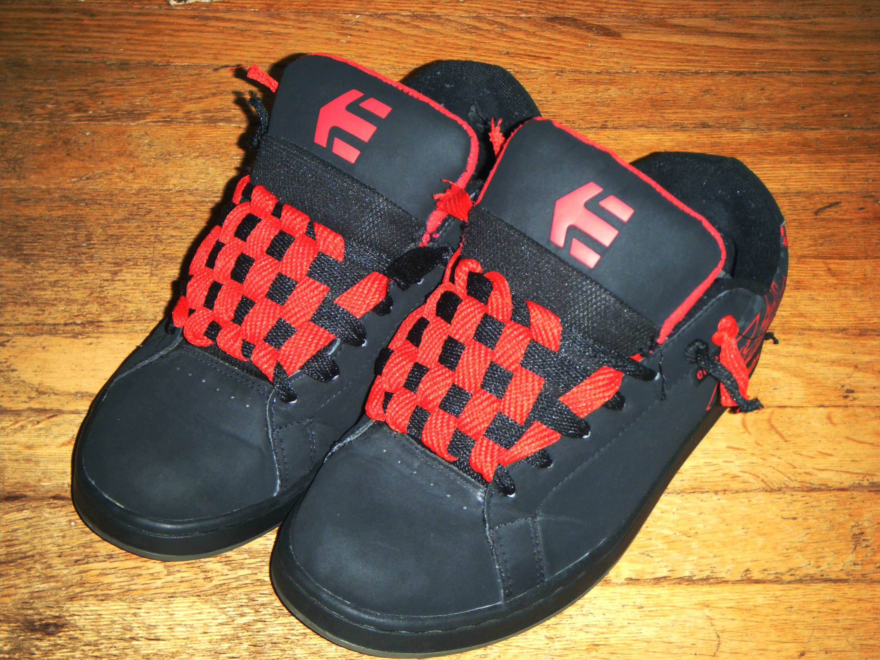 A pair of black Etines skateboard shoes with red and black checkerboard laces.